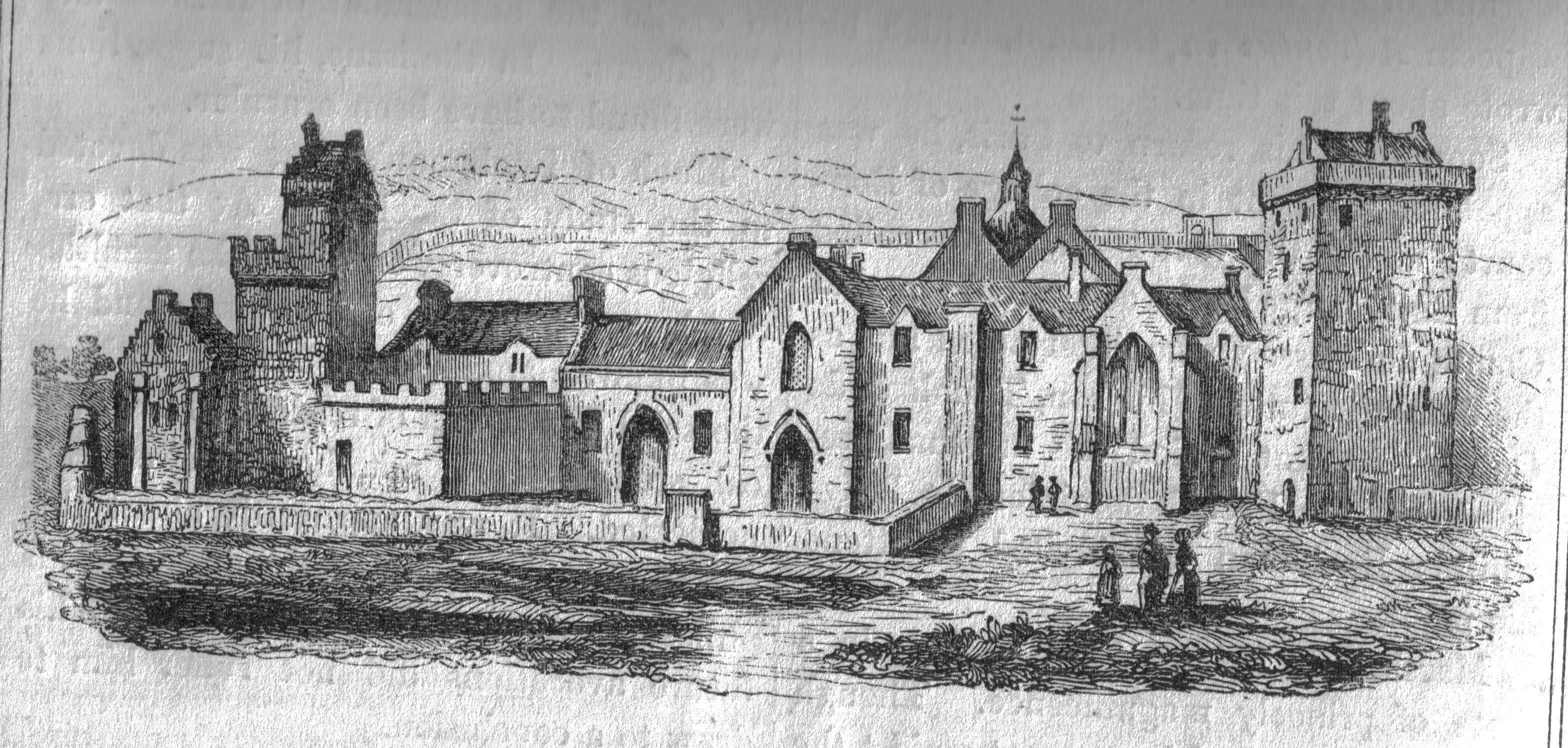 Crossraguel Abbey in Ayrshire, Scotland prior to the dissolution of the monasteries - conjectural drawing